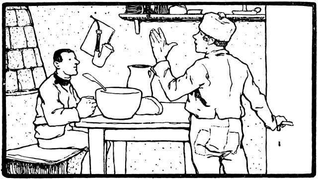 Illustration by Otto Ubbelohde to the fairy tale Hans Married